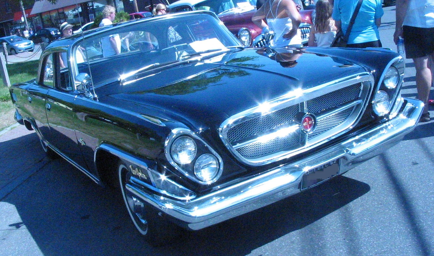 1962 Chrysler New Yorker photographed in Pointe-Claire, Quebec, Canada at the Auto classique Pointe-Claire 2011.